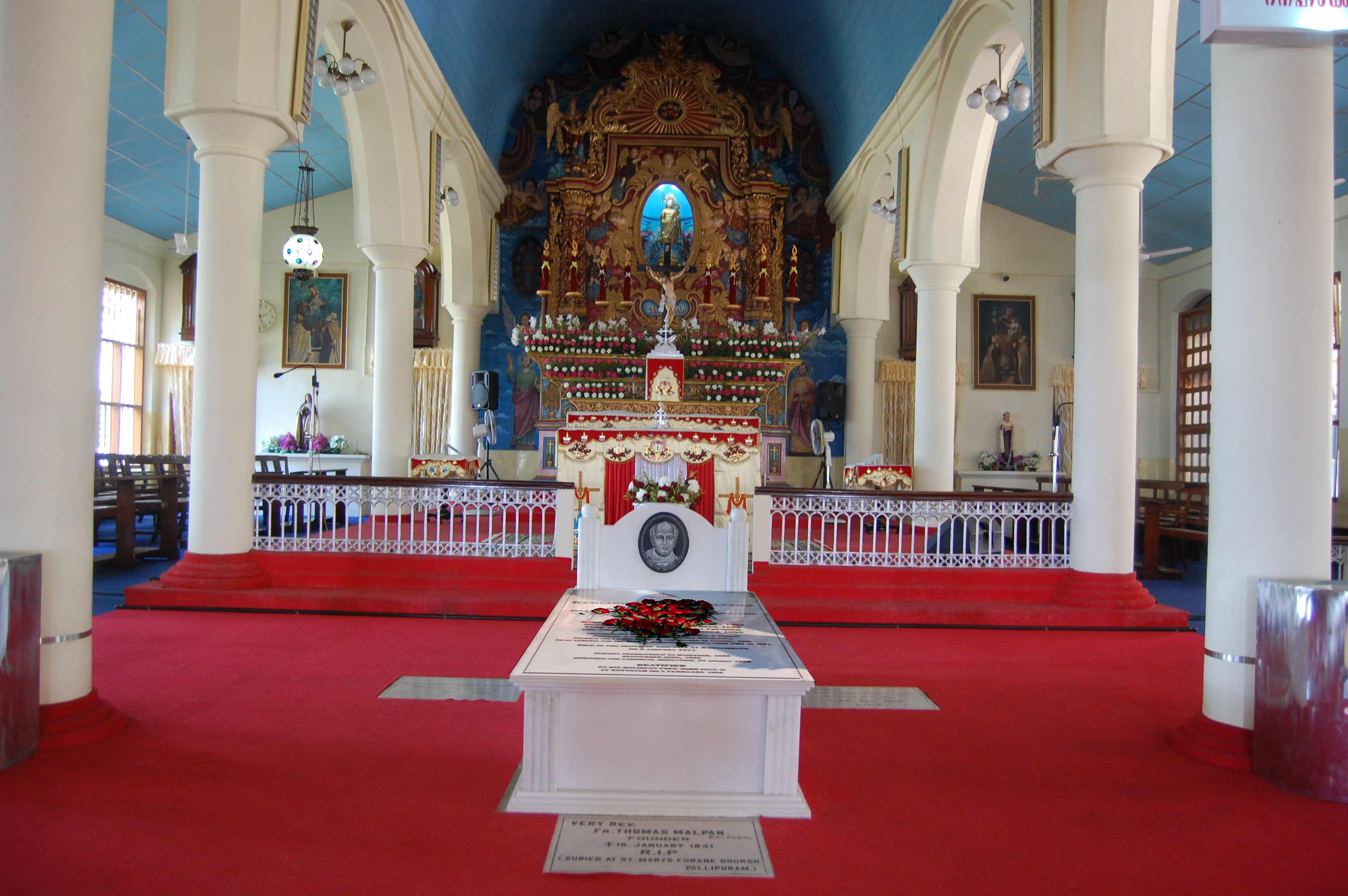 Tomb of Kuriakose Elias Chavara, Mannanam